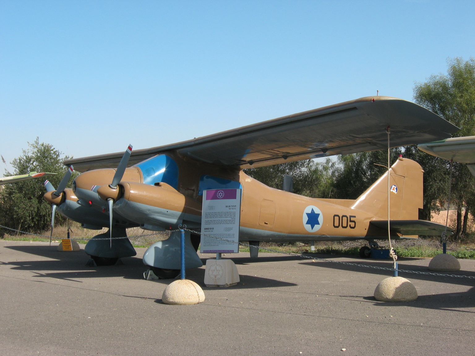 Dornier Do-28 at the Israeli Air Force Museum in Hatzerim, January 29, 2010